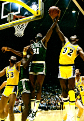 Boston Celtics Cedric Maxwell vs Los Angles Lakers Magic Johnson with Kareem Abdul-Jabbar and Jamaal Wilkes in the 1985 NBA Finals